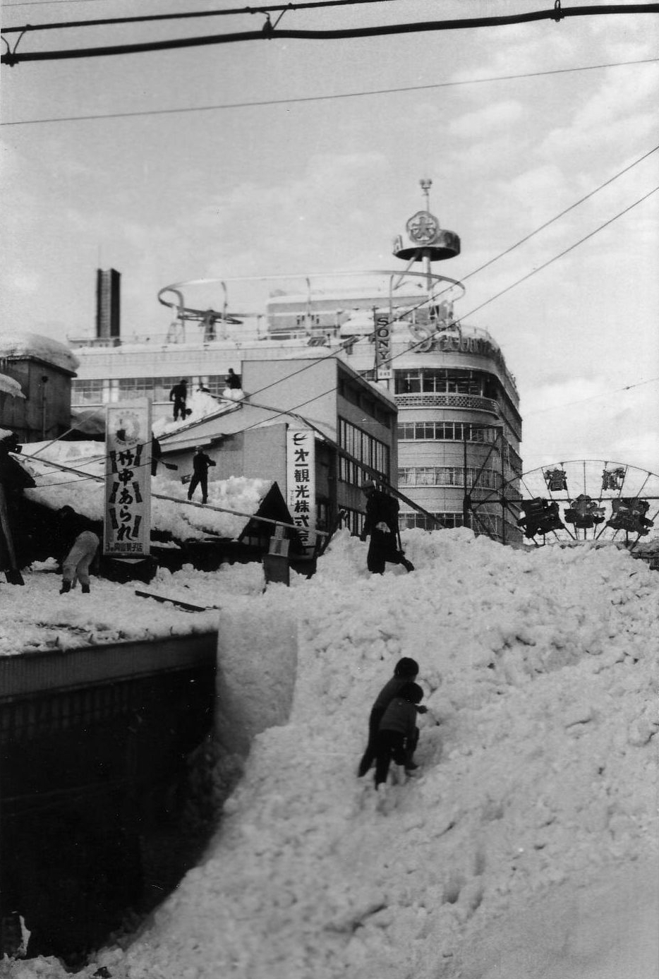 Scene of Nagaoka City at the time of the heavy snowfall of 1961